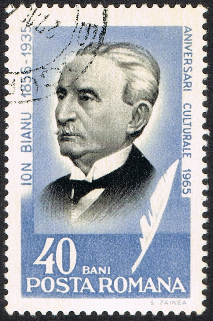 scanned stamp from Rumanian post (Posta Romana). stamp of Ion Bianu, philologist, (1856 - 1935) Michel stamp catalogue (East-Europe part 4) number: 2396